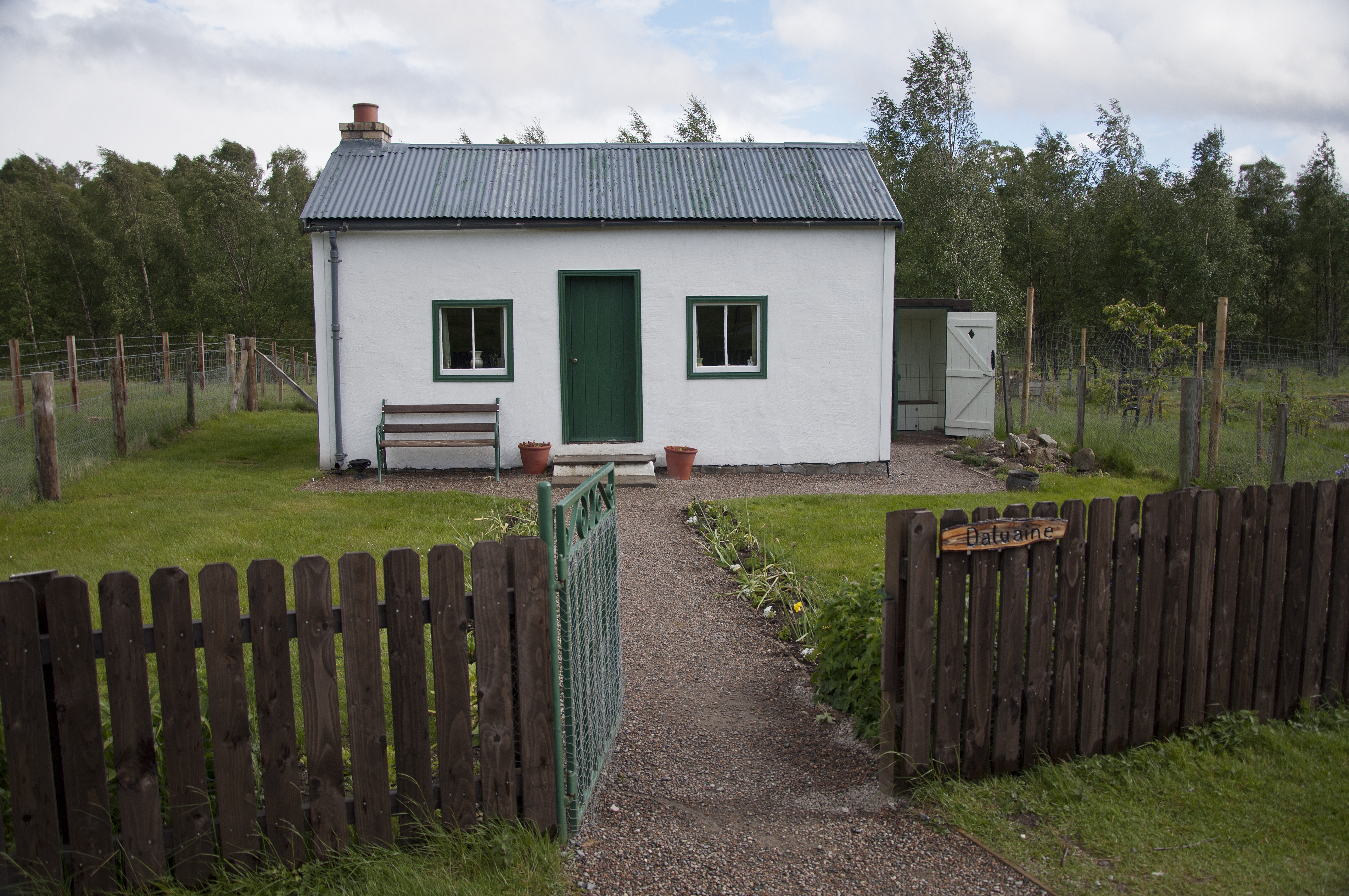 Daluaine Summer House at the Highland Folk Museum, Newtonmore, Scotland